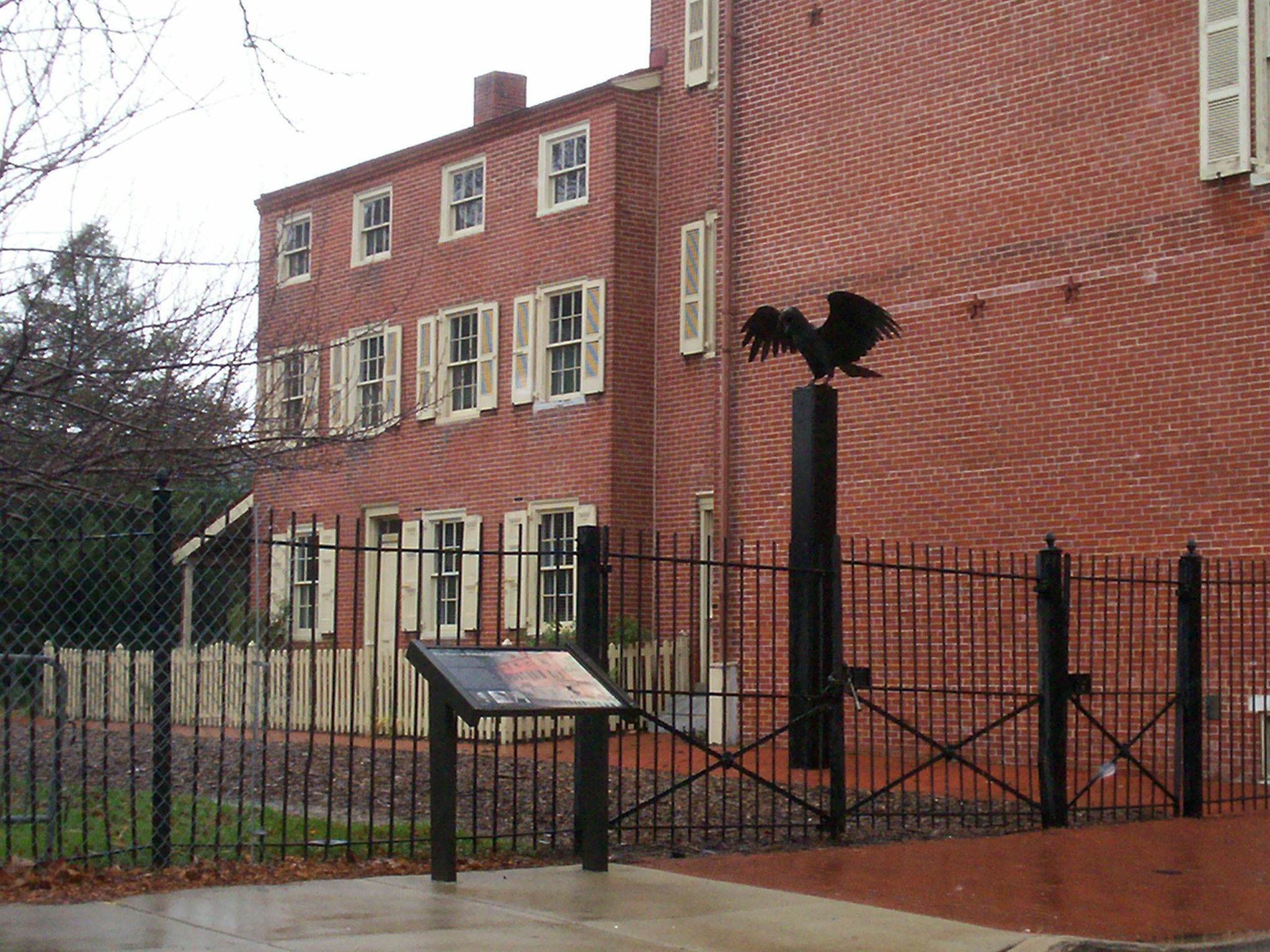 Exterior of the Edgar Allan Poe National Historic Site, Philadelphia. This view is from the sidewalk on N. 7th Street, just above Spring Garden St.